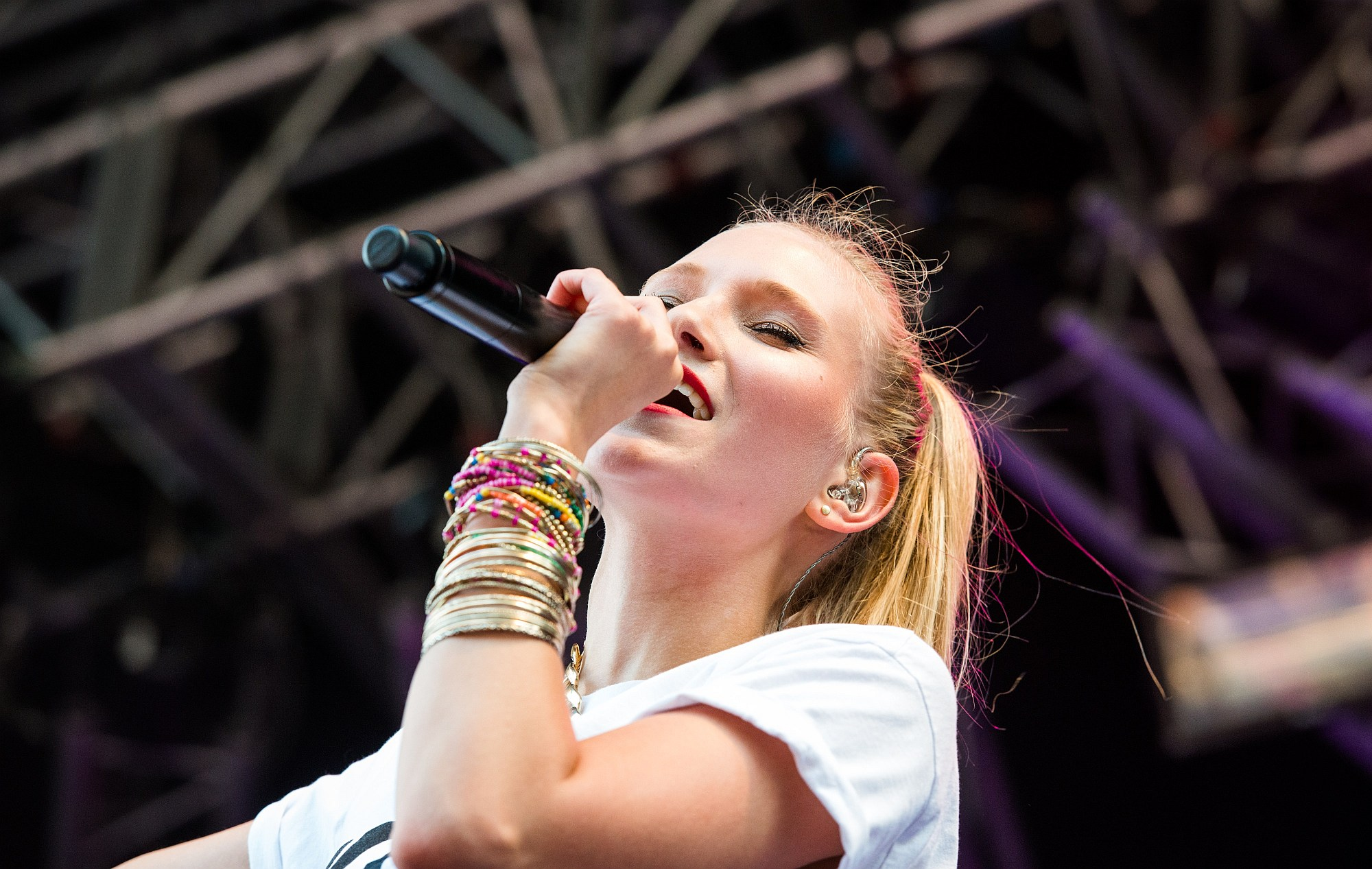 Glasperlenspiel at the Hohentwiel Festival 2013 in Singen, Germany